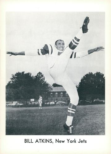 A promotional image of New York Jets player Bill Atkins.